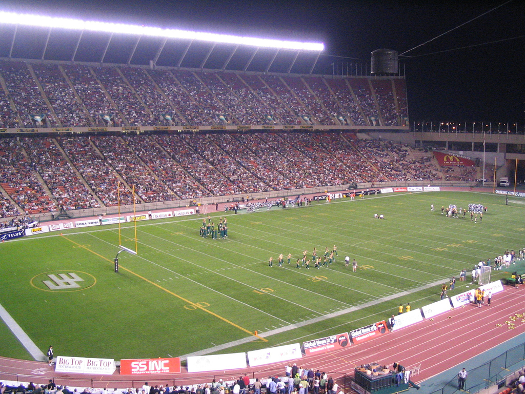 Cheerleaders at an Edmonton Eskimos-Montreal Alouettes game, Commonwealth Stadium, Edmonton, Alberta, Canada.